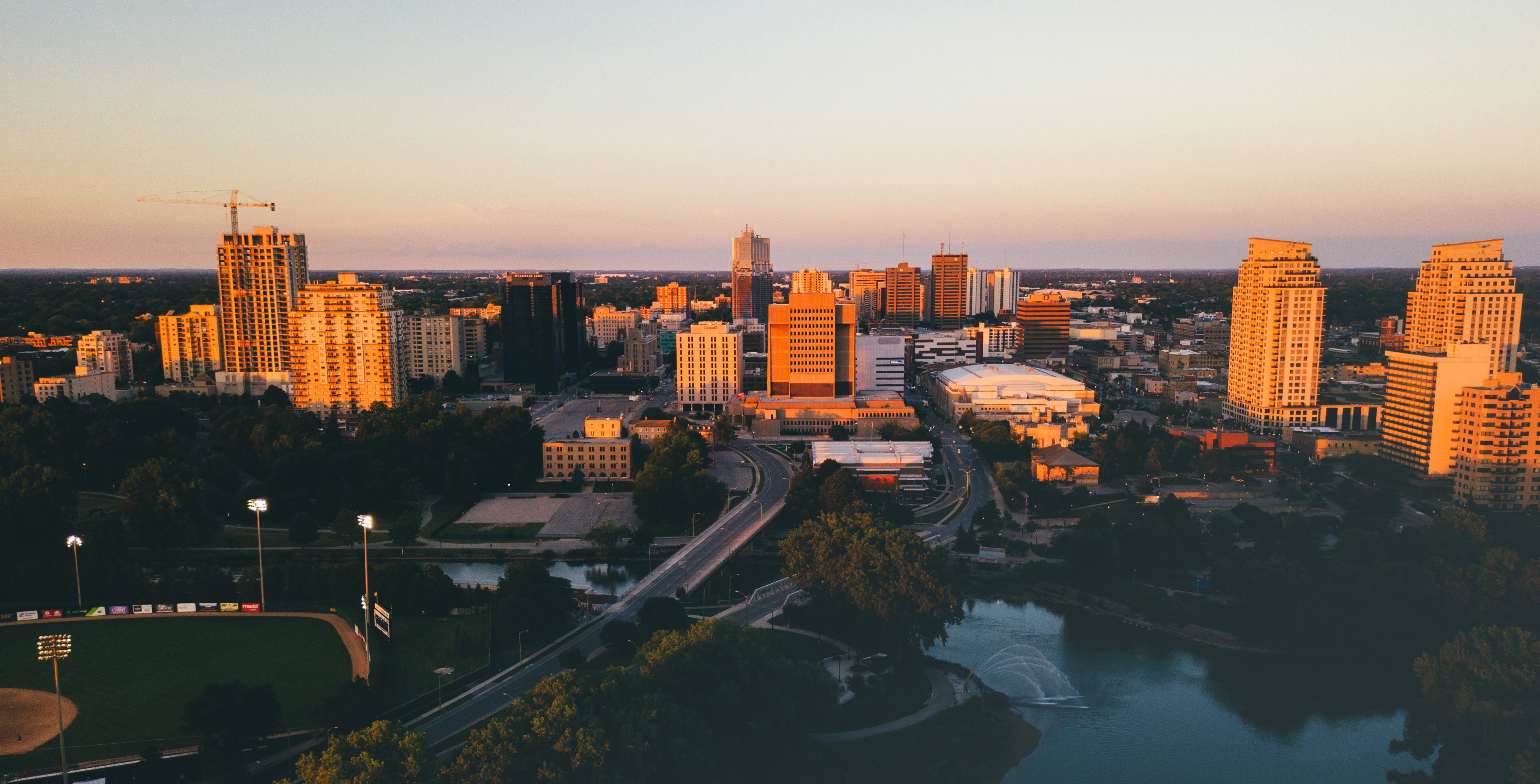 The London Ontario skyline as of July 25th, 2017.